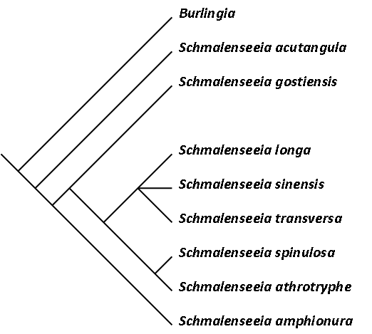 Cladogram depicting the relations between the species of the genus Schmalenseeia, based on Ebbestad, J.O.; Budd, G.D. (2003). "Burlingiid trilobites from Norway, with a discussion of their affinities and relationships". Palaeontology 45(6): 1171–1195